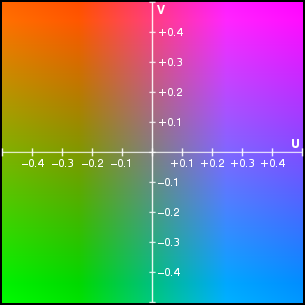 UV colour plane, at a Y value of 0.5, mapped to RGB.